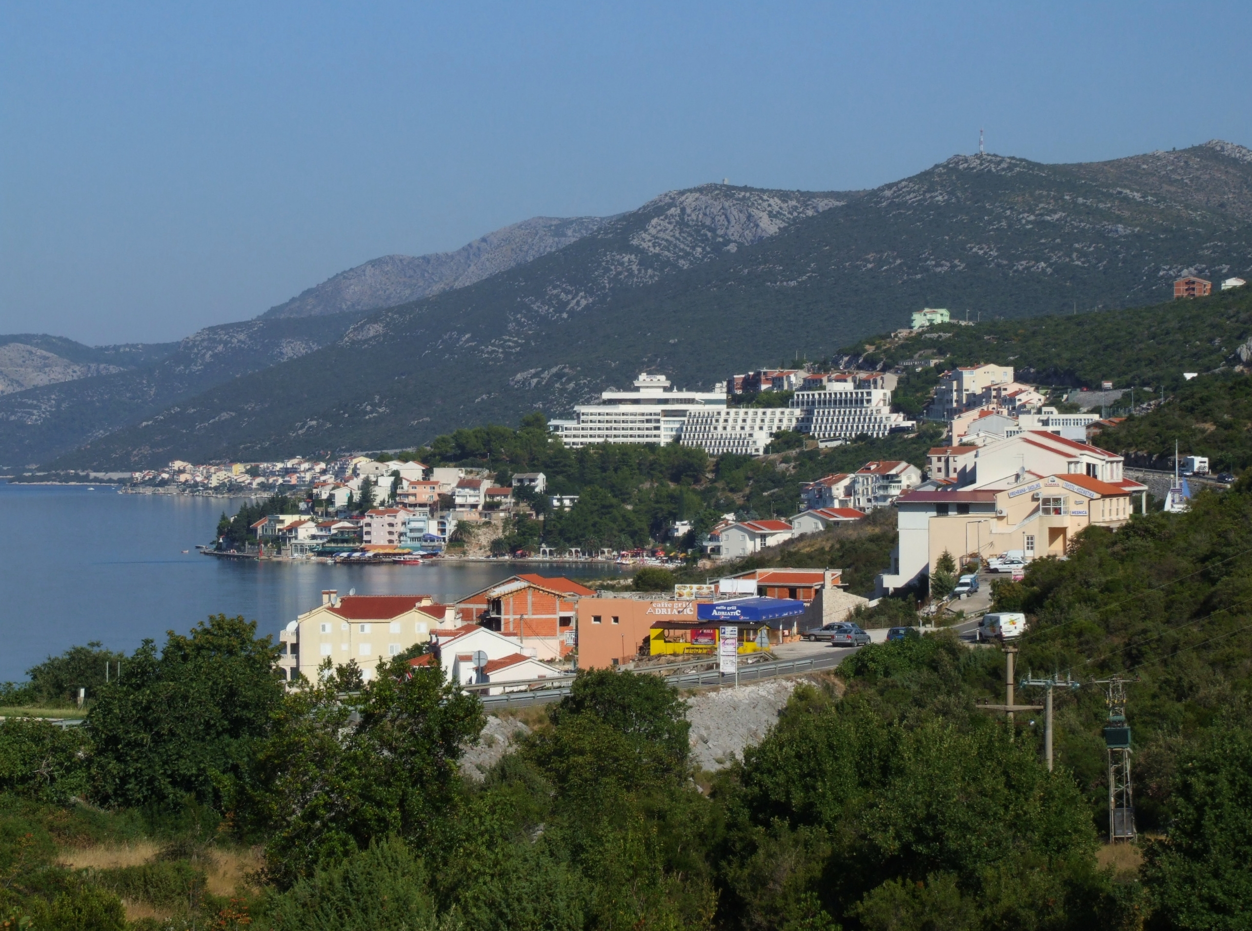 Neum, Bosnia and Hercegovina